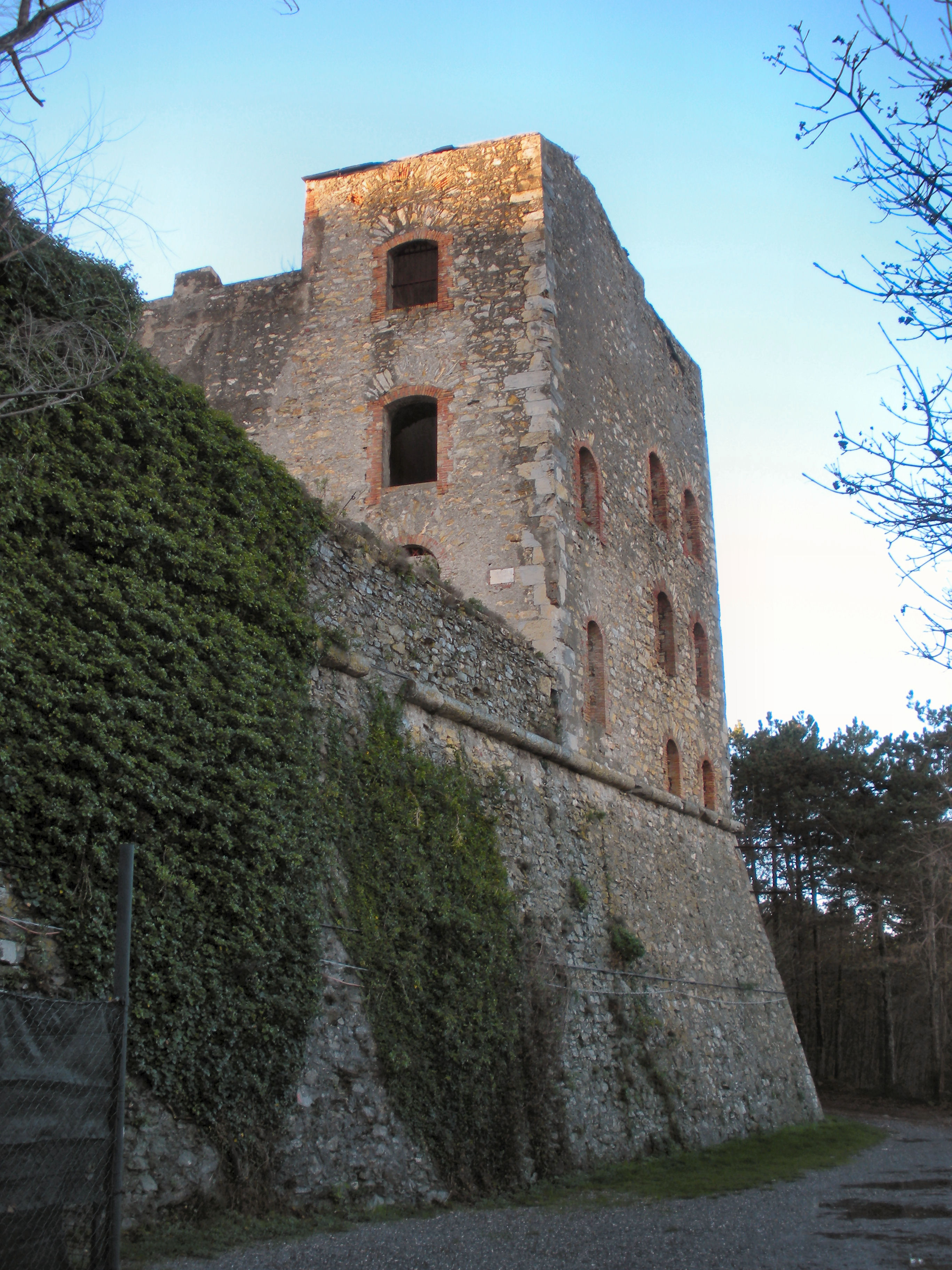 Genoa (Italy), Fort Castellaccio, view from the outside